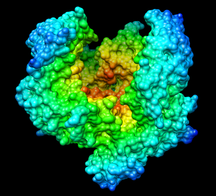 test